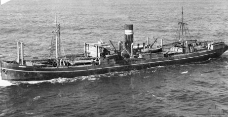 Aerial port side view of the Australian cargo vessel SS Mareeba which was sunk by the German auxilary cruiser Kormoran in the Bay of Bengal on 26-06-1941.